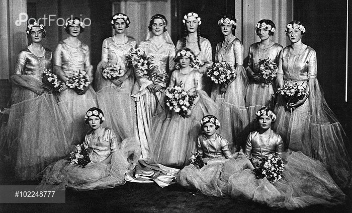 Diana Churchill bridesmaid at Diana Mitford Guinness wedding